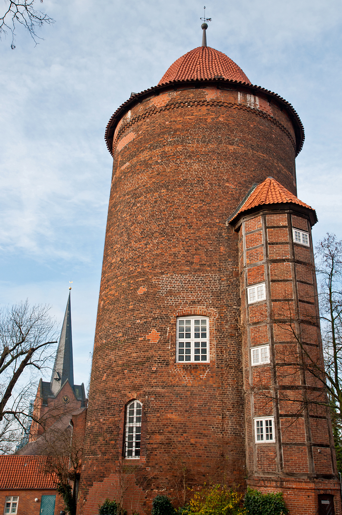 The castle tower "Waldemarturm" in Dannenberg (Elbe), built around the year 1200. The staircase has been retro-fitted to the building's eastside. In the background you can see the church St. Johannis.